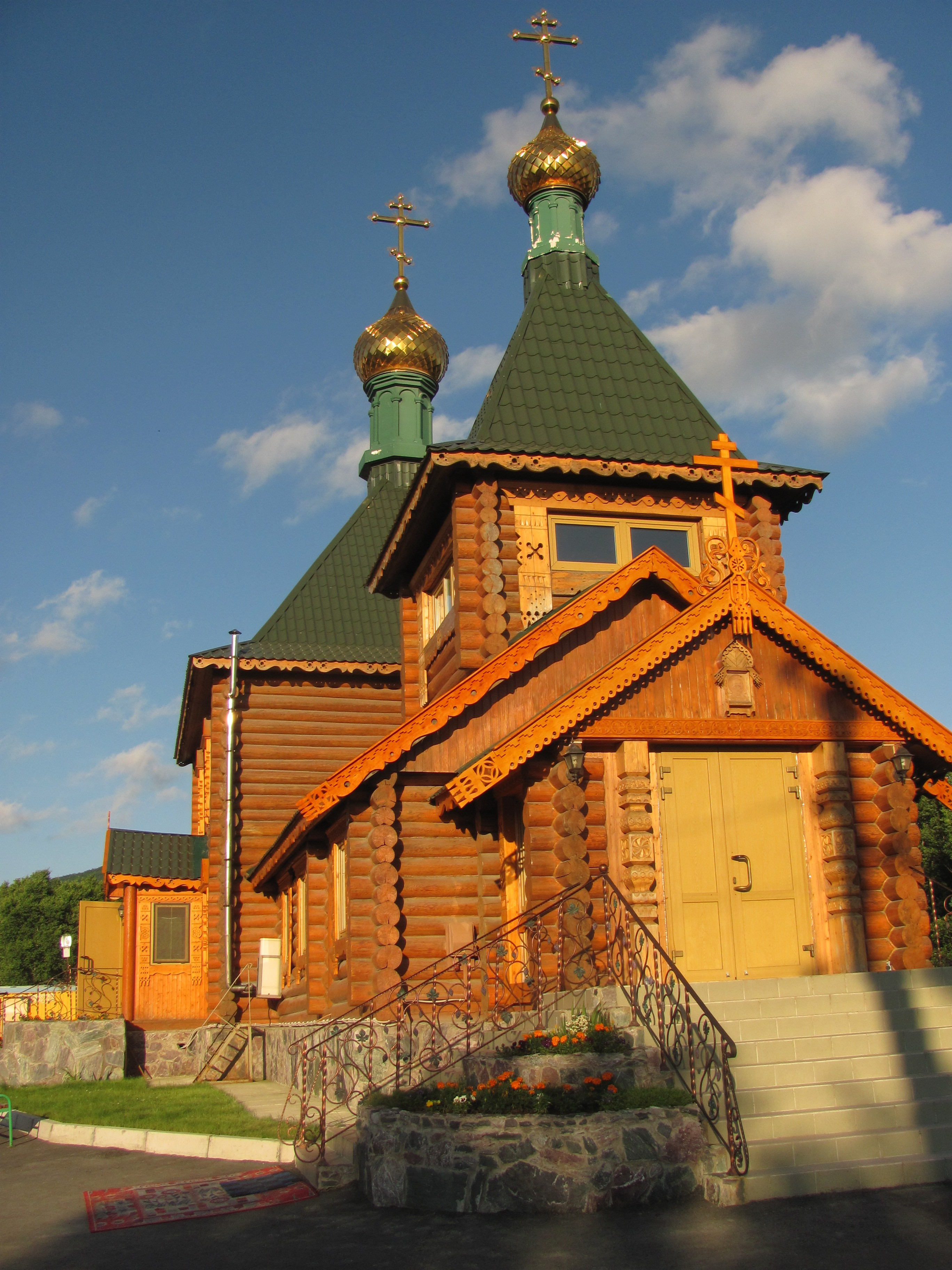 Church of holy hierarch Nicholas (Saint Nicholas) (Yuzhno-Sakhalinsk)